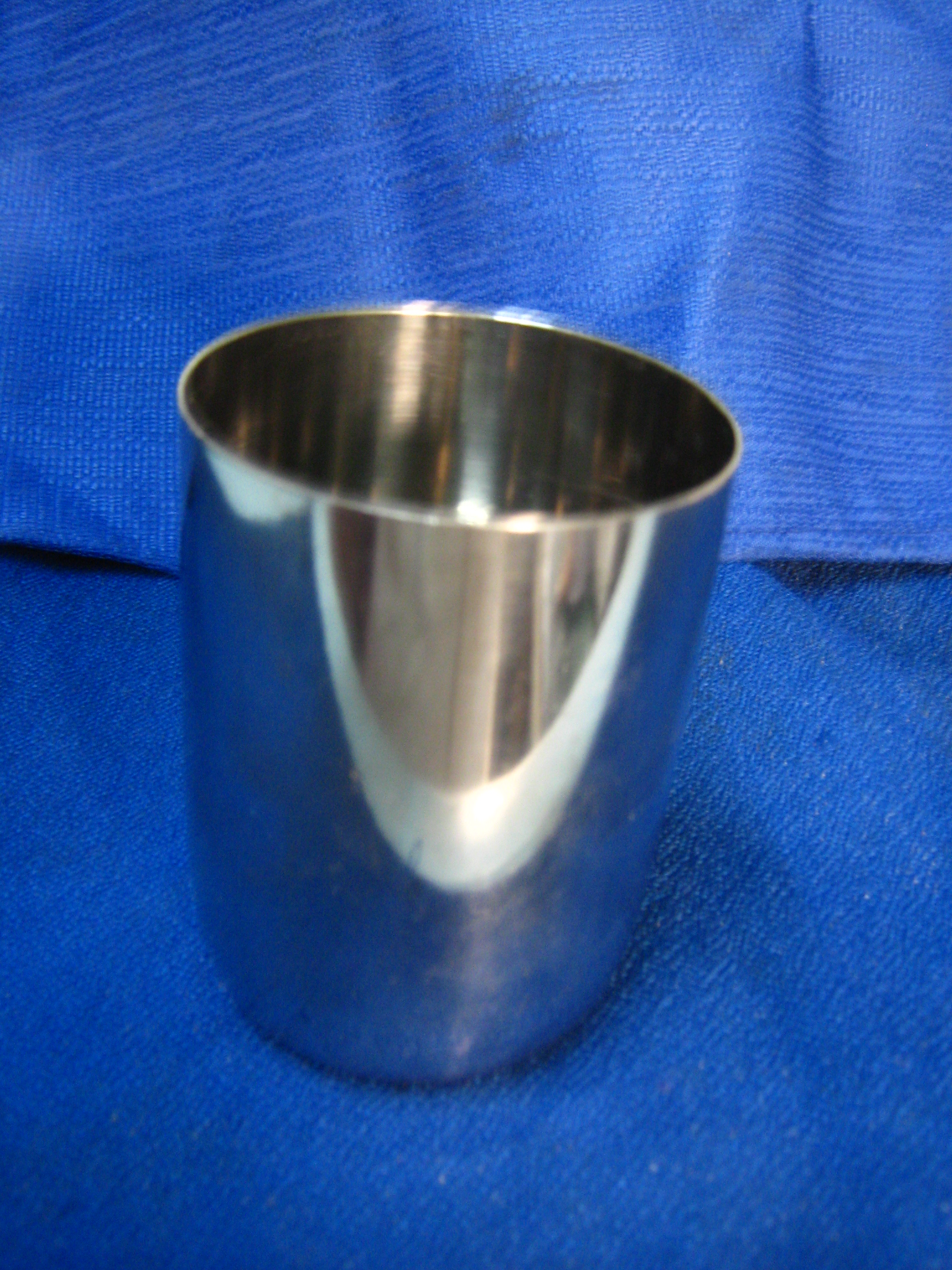 utensils used in Indian kitchen.